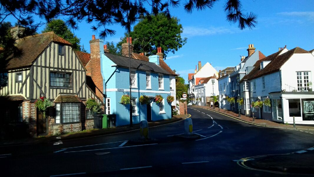 Looking west into the high street of the Old Town.